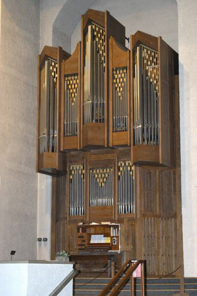 Organ of Liebfrauen church, Darmstadt